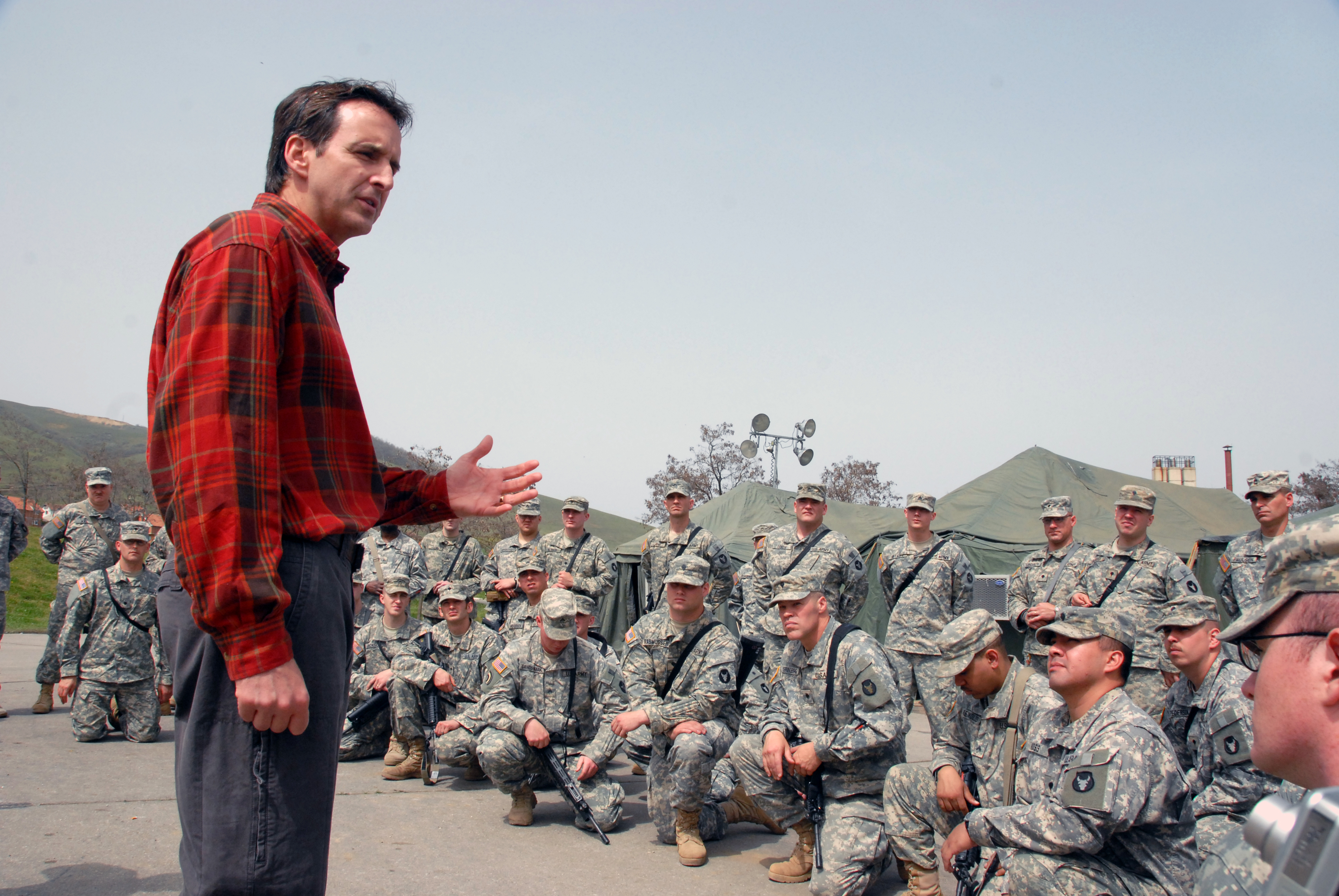 Minnesota Gov. Tim Pawlenty meets with Minnesota National Guard troops serving with the Kansas National Guard's 35th Infantry Division in Kosovo during a visit to the world's newest country on April 12, 2008. Kosovo declared independence from Serbia on Feb. 17, 2008. (U.S. Army photo by Staff Sgt. Jim Greenhill) (Released)